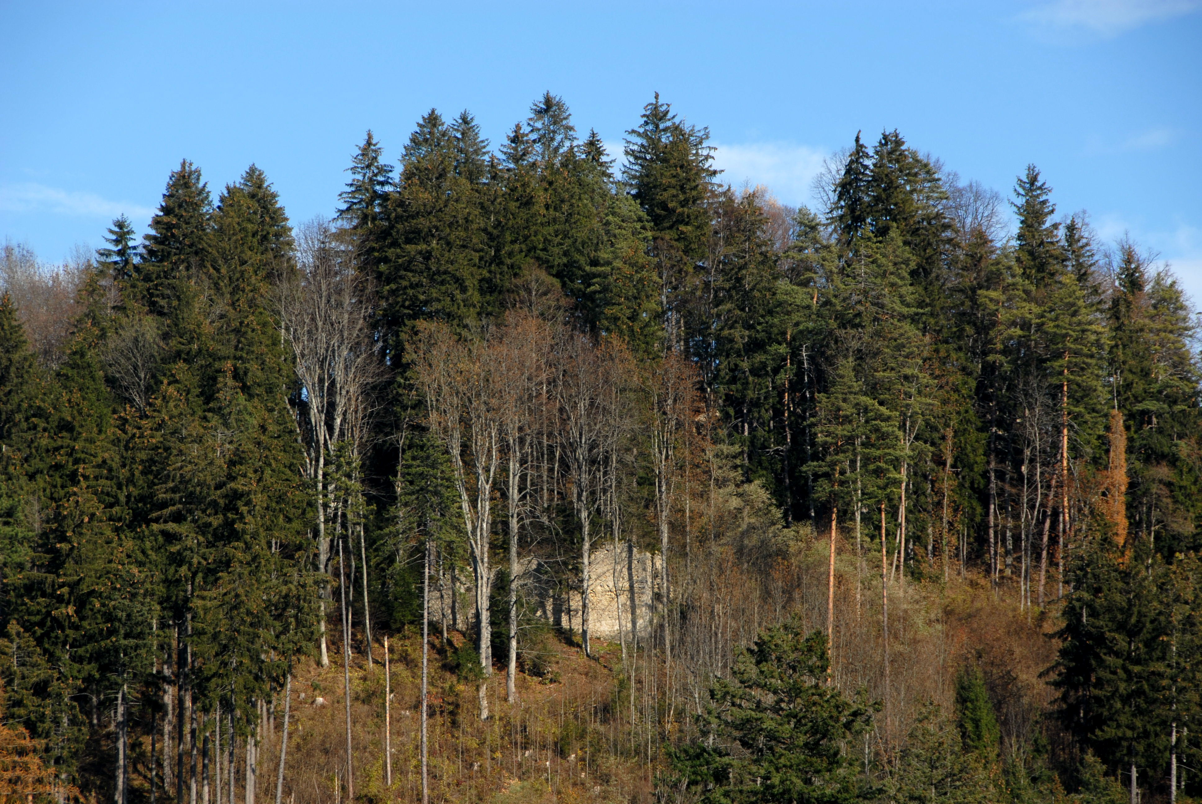 Castle ruin of Sonnegg in the community of Sittersdorf, situated in the district Voelkermarkt, Carinthia, Austria